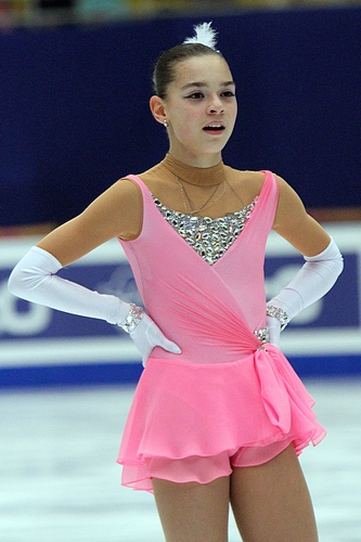 Adelina Sotniкova at the Junior Grand Prix Final 2010